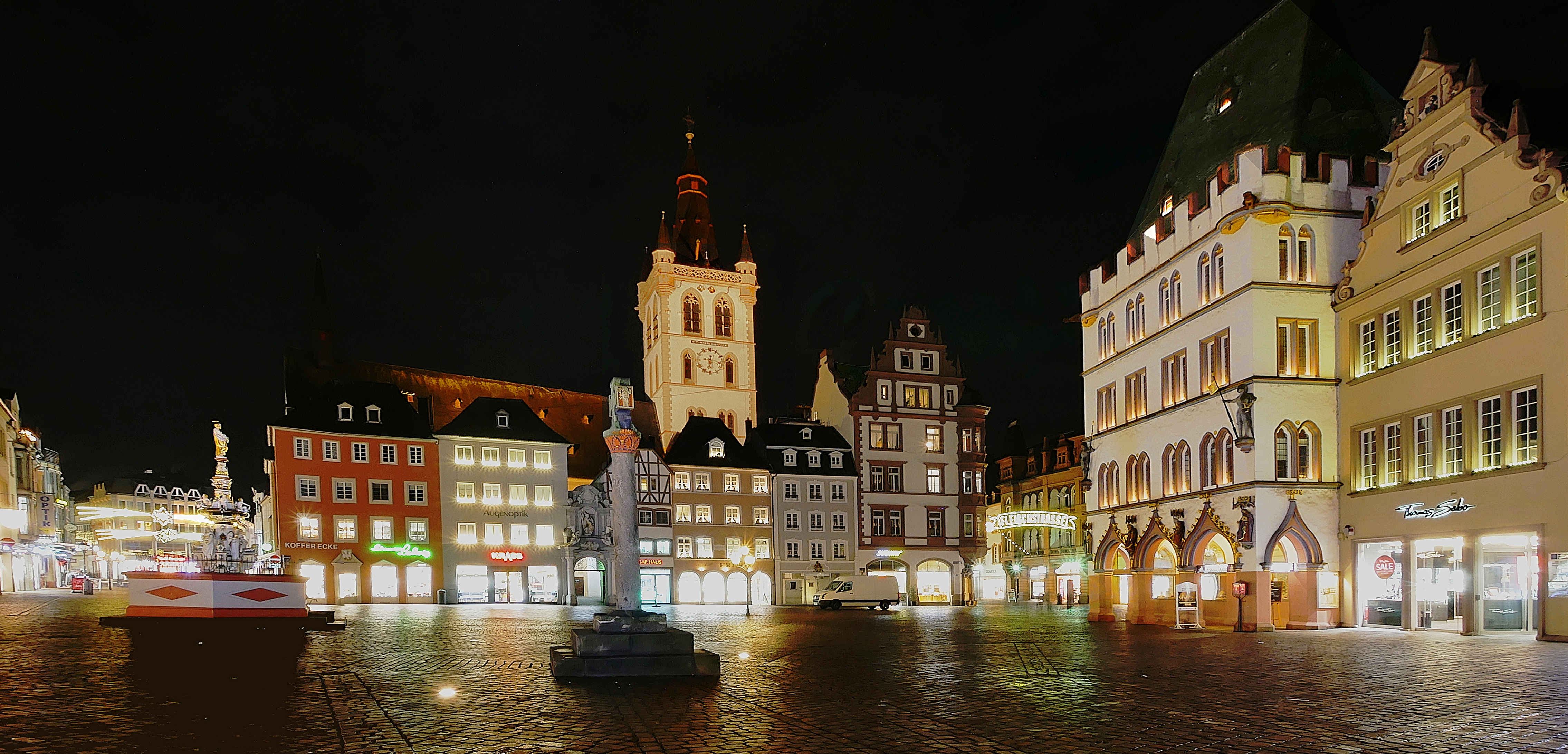 Hauptmarkt (central market) Trier (Germany)